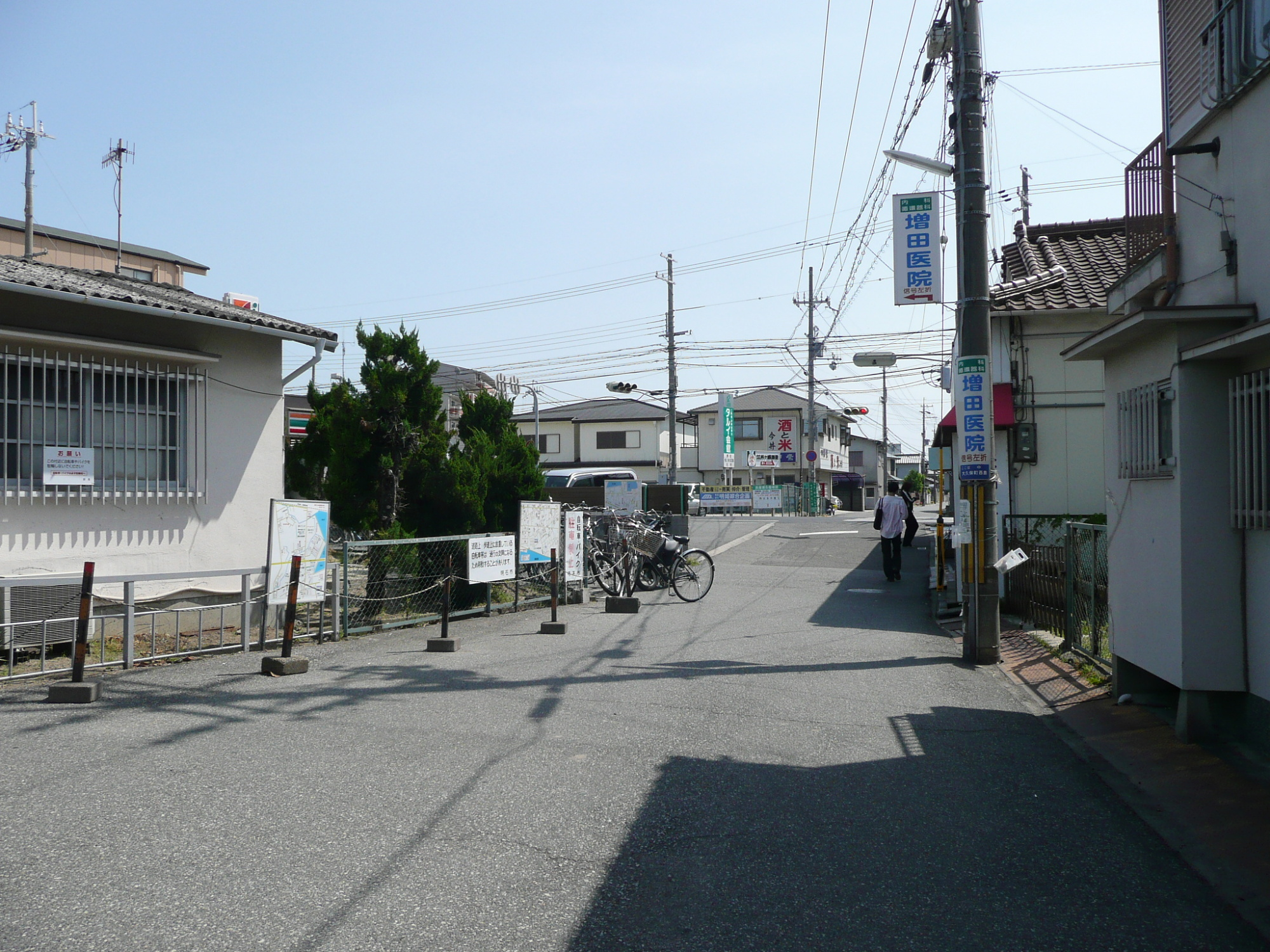 The vicinity of Nishi-Eigashima Station (Sanyo Electric Railway). / 山陽電気鉄道西江井ヶ島駅付近